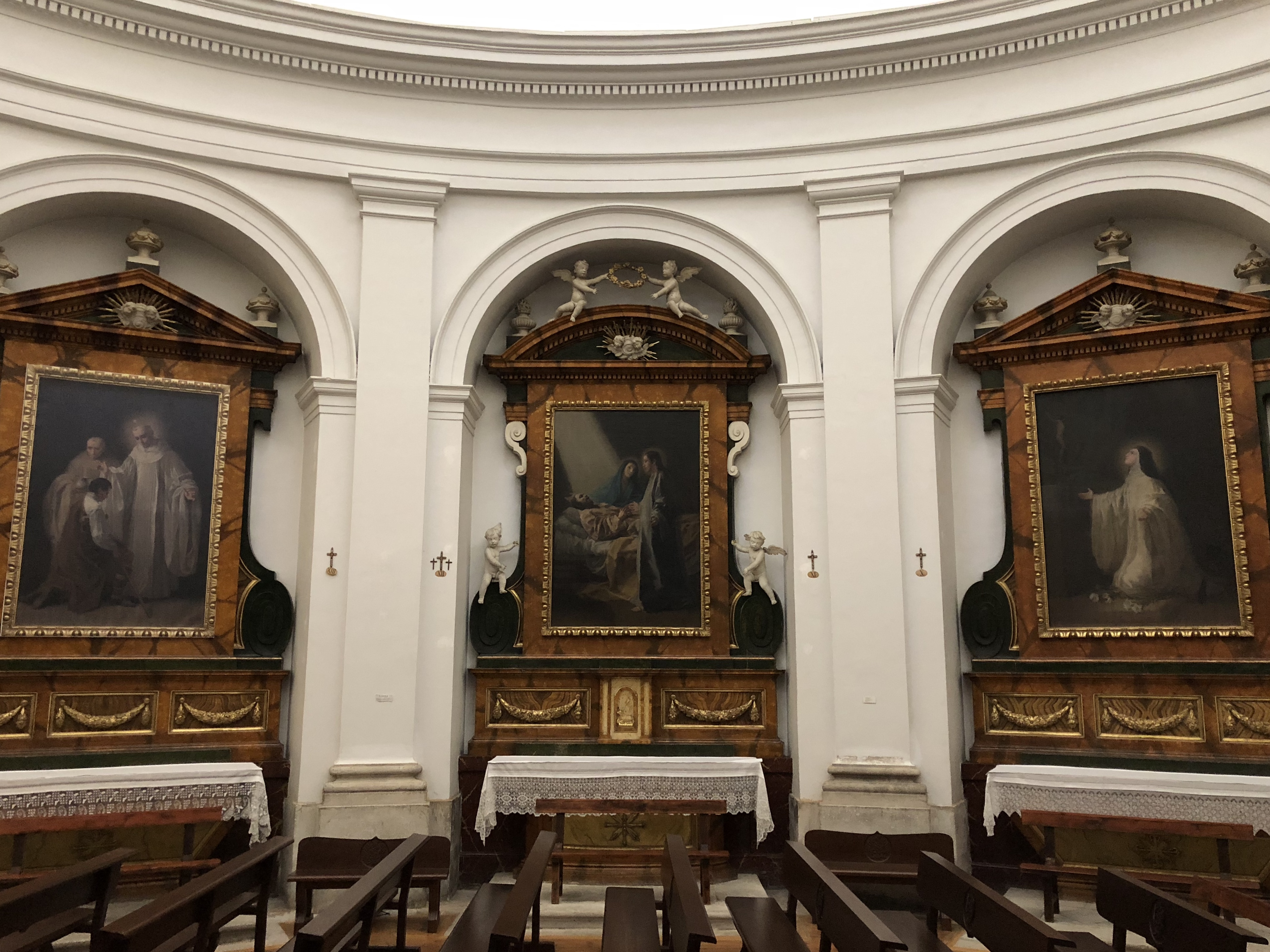 Paintings by Francisco Goya in the Royal monastery of Saint Joachim and Saint Anne (Valladolid)